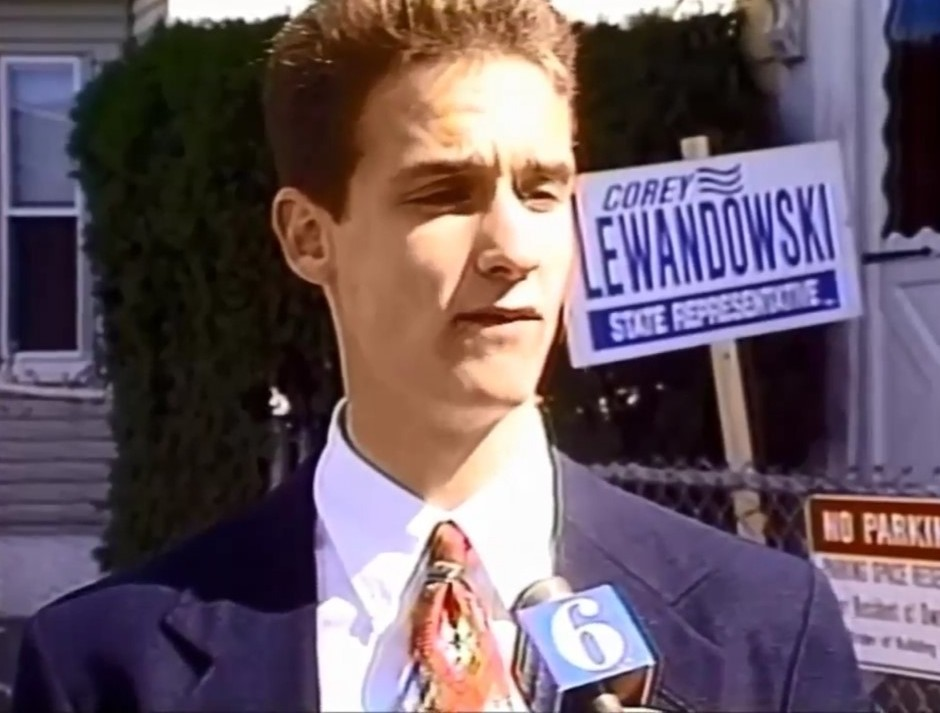 1994 candidate for State Representative in Lowell, MA. Screen shot from Oct 3, 1994 edition of News Center 6.